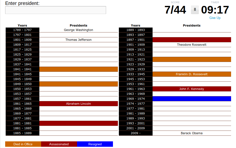 A sample Sporcle quiz, of US Presidents